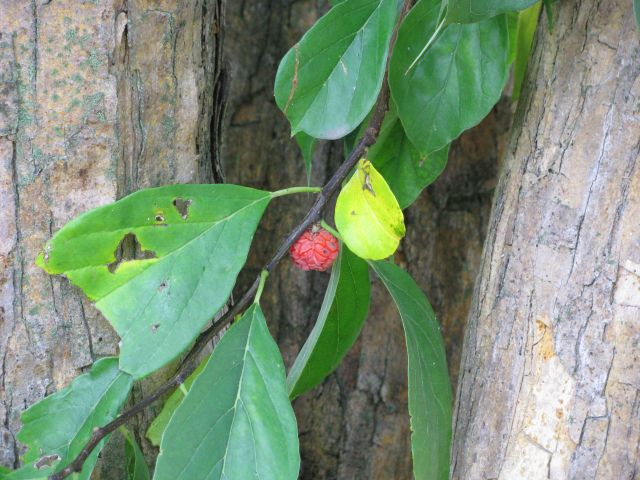 Maclura tricuspidata fruit